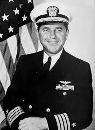 Roy Maurice Isaman